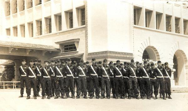 Contributed by the Advanced Course Class of 1959